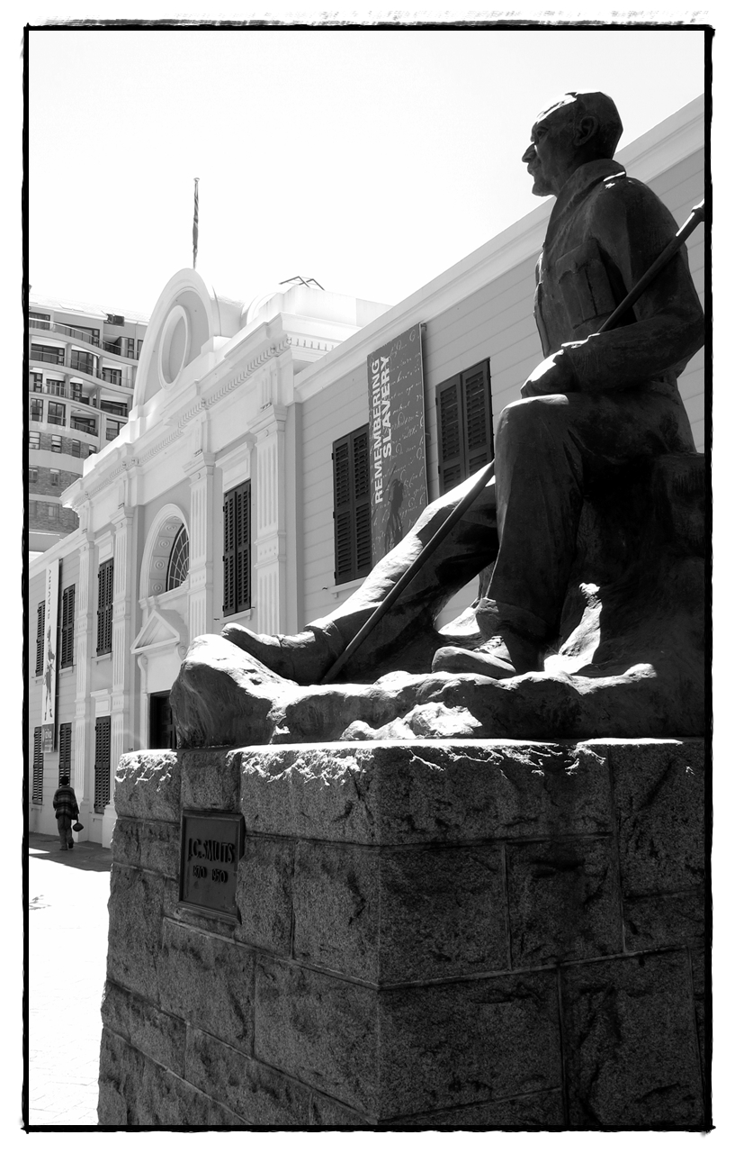 This media shows a South African Protected Site with SAHRA file reference 9/2/018/0177.